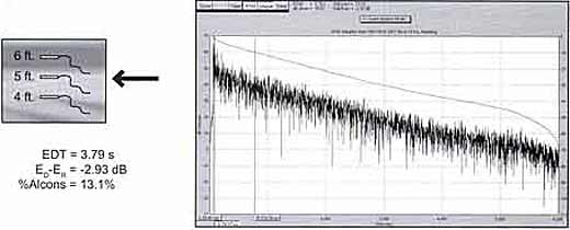 Software calculating the Alcons.